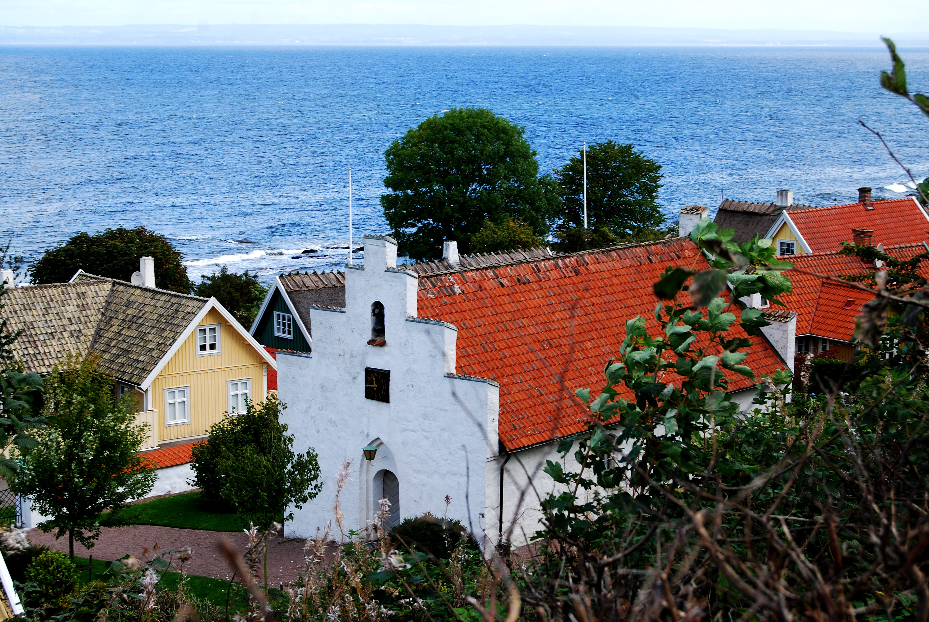 The chapel was probably built in 1475 by fishermen in the area